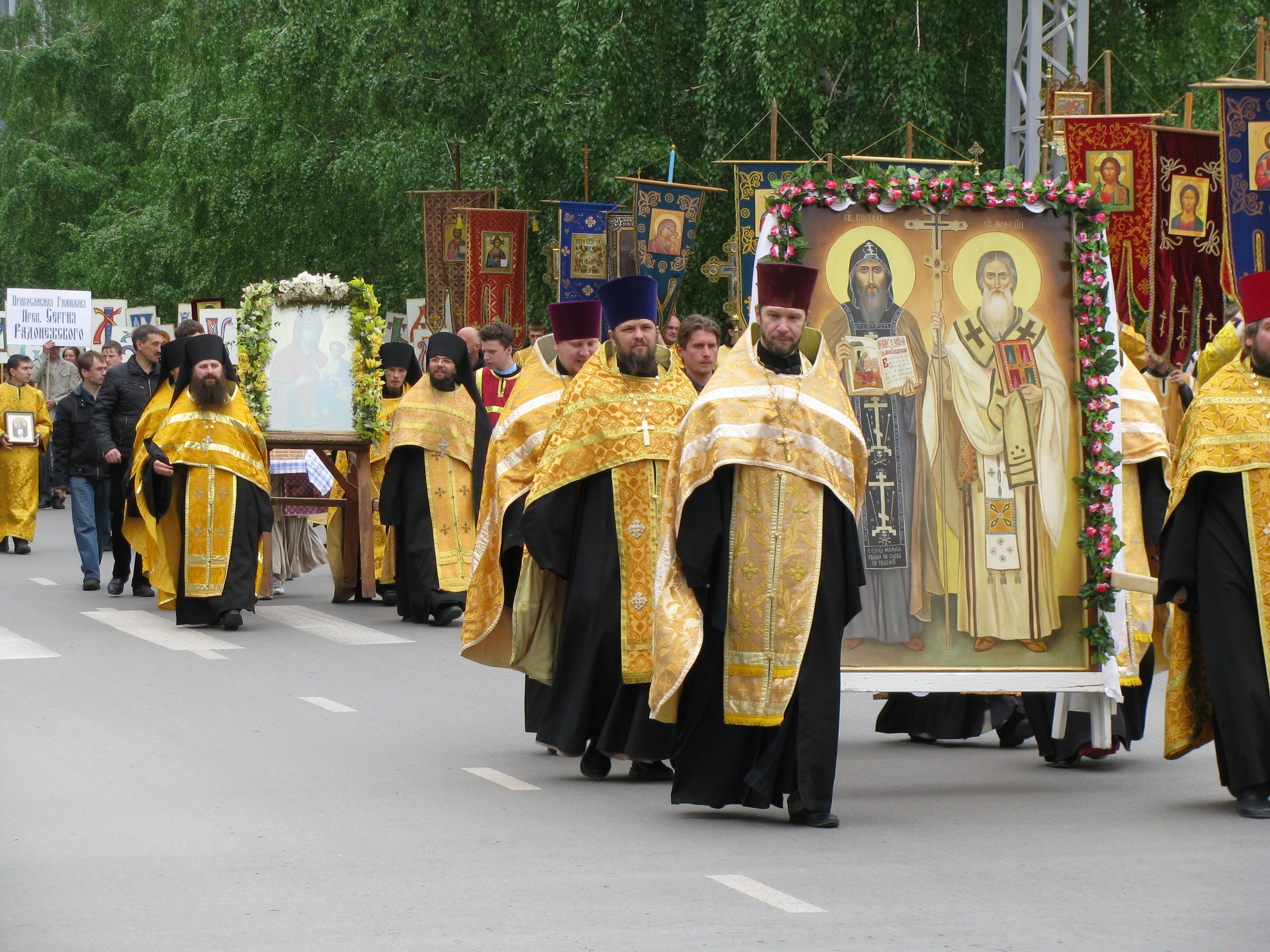 Cross Procession in Novosibirsk